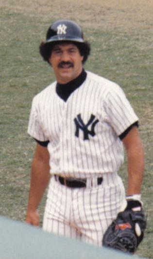 Rick Cerone in New York Yankees Spring Training, 1983. Philatio (talk) 03:33, 5 May 2008 (UTC) 03:33, 5 May 2008 . . Phil5329 . . 315×532 (22 KB)